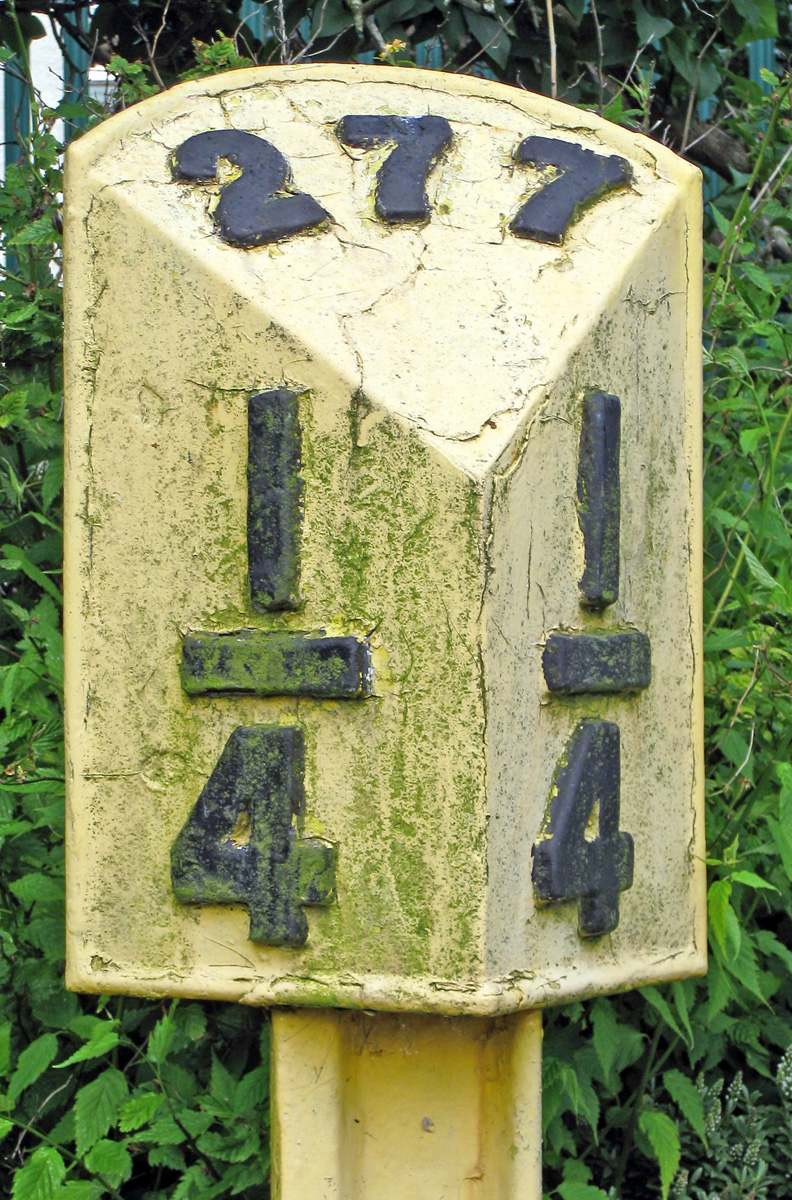 Railway mileage post at Appleby railway station, Westmorland/Cumbria marking its distance from London (St Pancras) railway station - 277 1/4 miles.